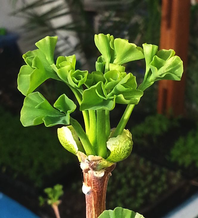 Bud of Ginko biloba